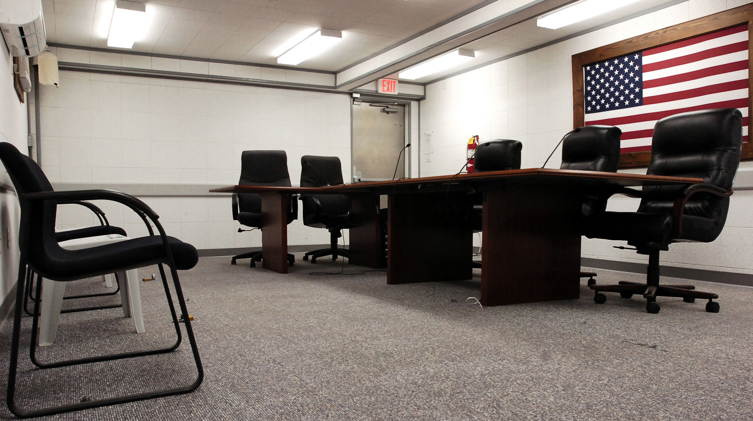 The Office of Administrative Review of Detention of Enemy Combatants board rooms house both the Annual Review Boards (ARB) and Combatant Status Review Tribunals (CSRT) for detained enemy combatants in Guantanamo Bay, Cuba. Conducted annually, ARBs seek to determine if enemy combatants still pose a threat to the U.S., while CSRTs seek to determine if detainees meet the criteria to be labeled enemy combatants. (JTF Guantanamo photo by Navy Petty Officer 2nd Class Michael Billings)